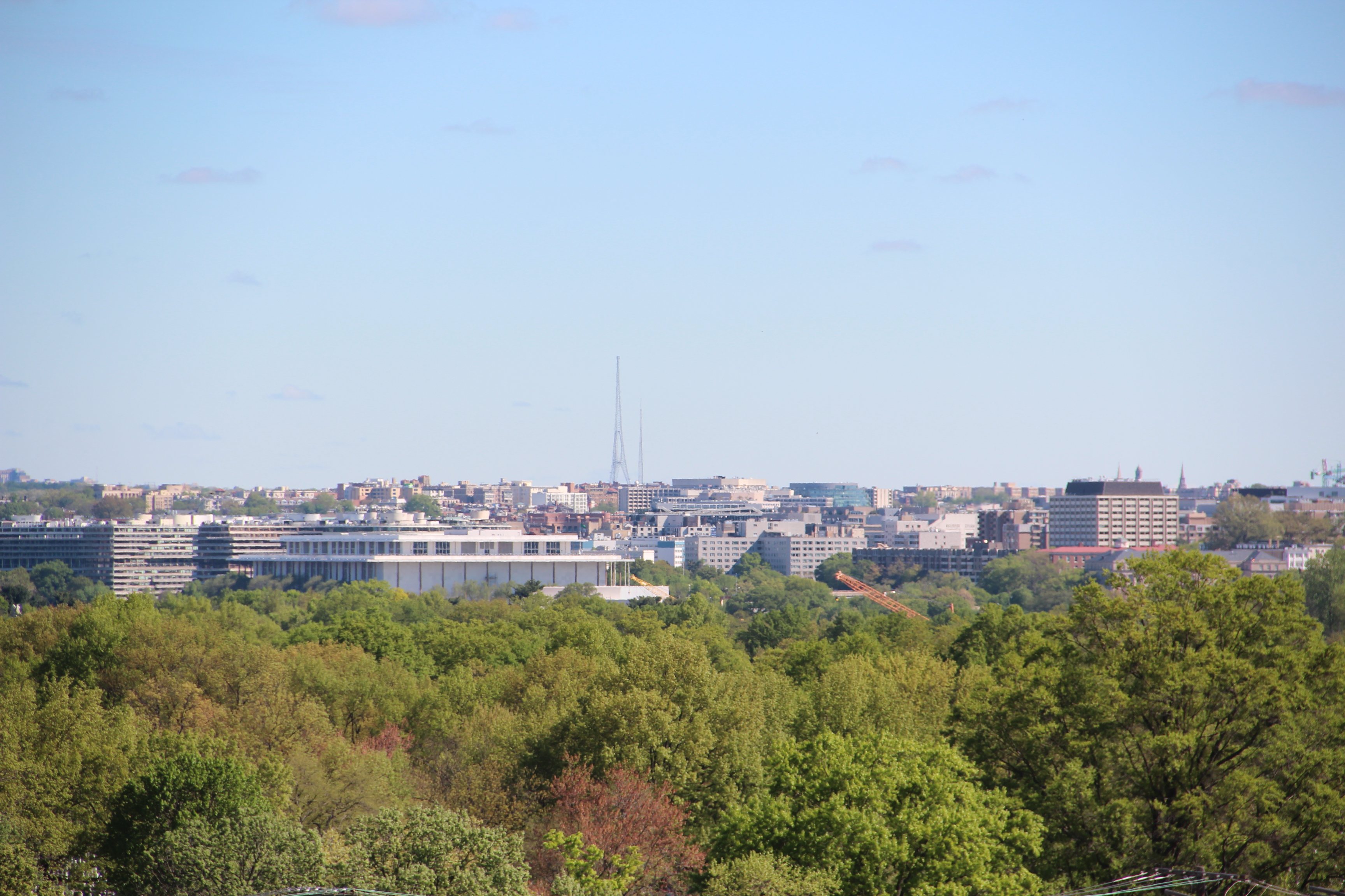 Hughes Memorial Tower viewed from Air Force Memorial, April 2019